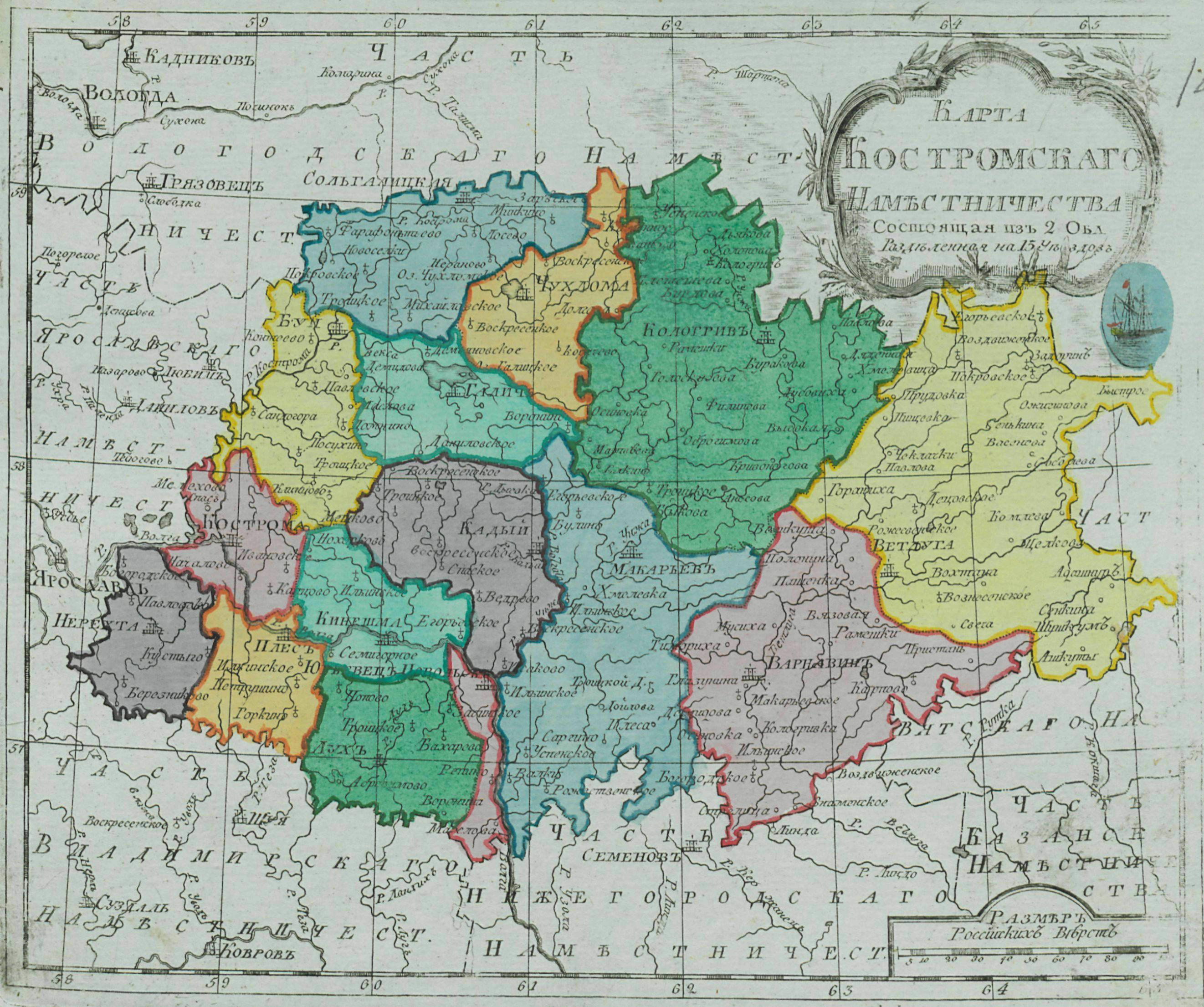 Small atlas of the Russian Empire (1792). Map of Kostroma Namestnichestvo (map 13).